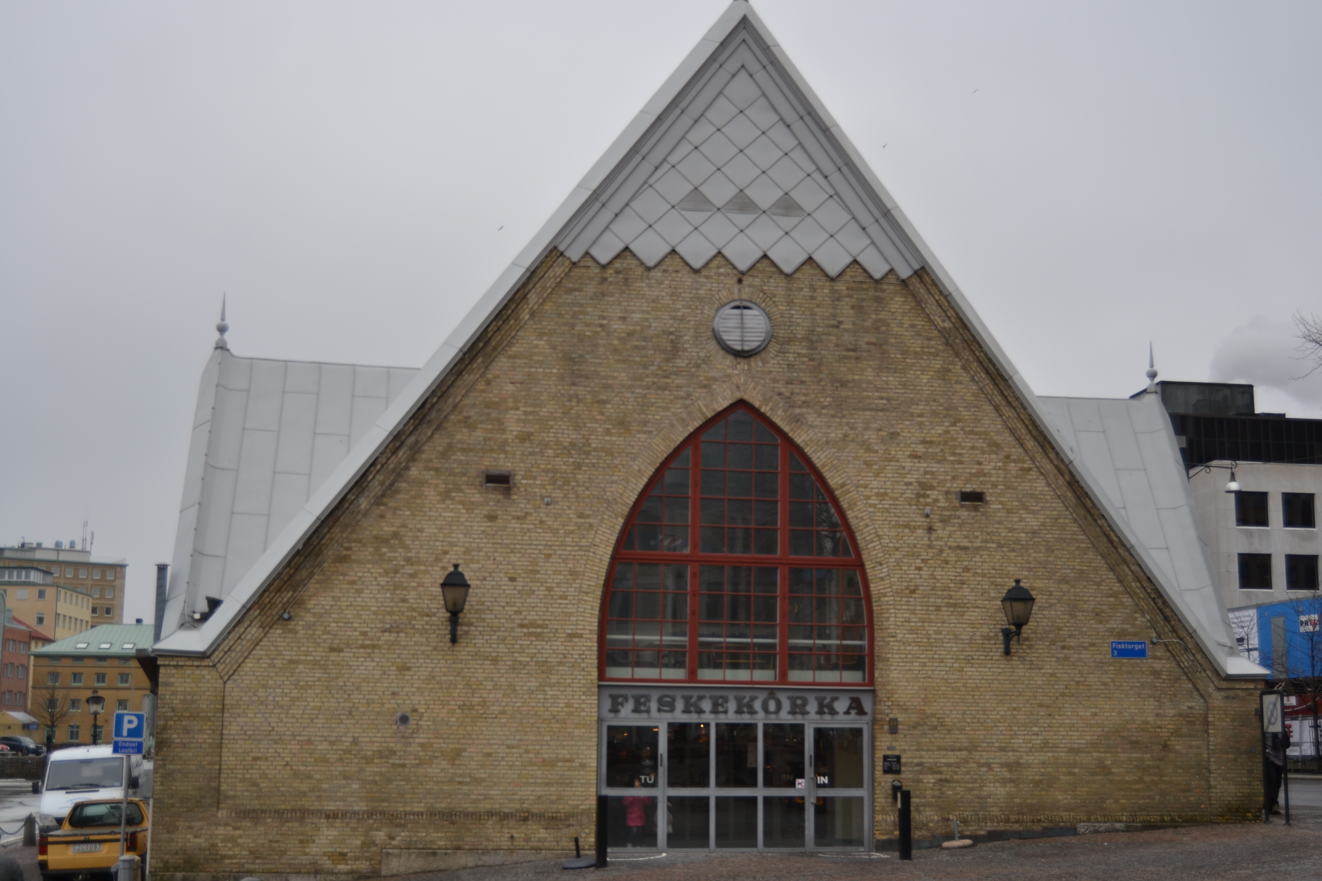 Feskekôrka, fish market